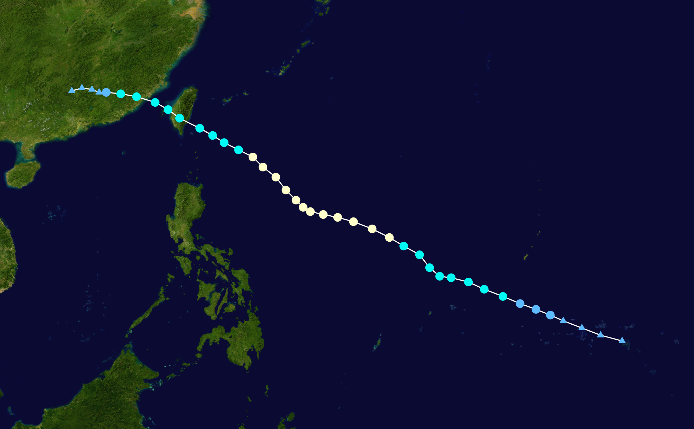 Typhoon Kaemi (2006) track. Uses the color scheme from the Saffir-Simpson Hurricane Scale.